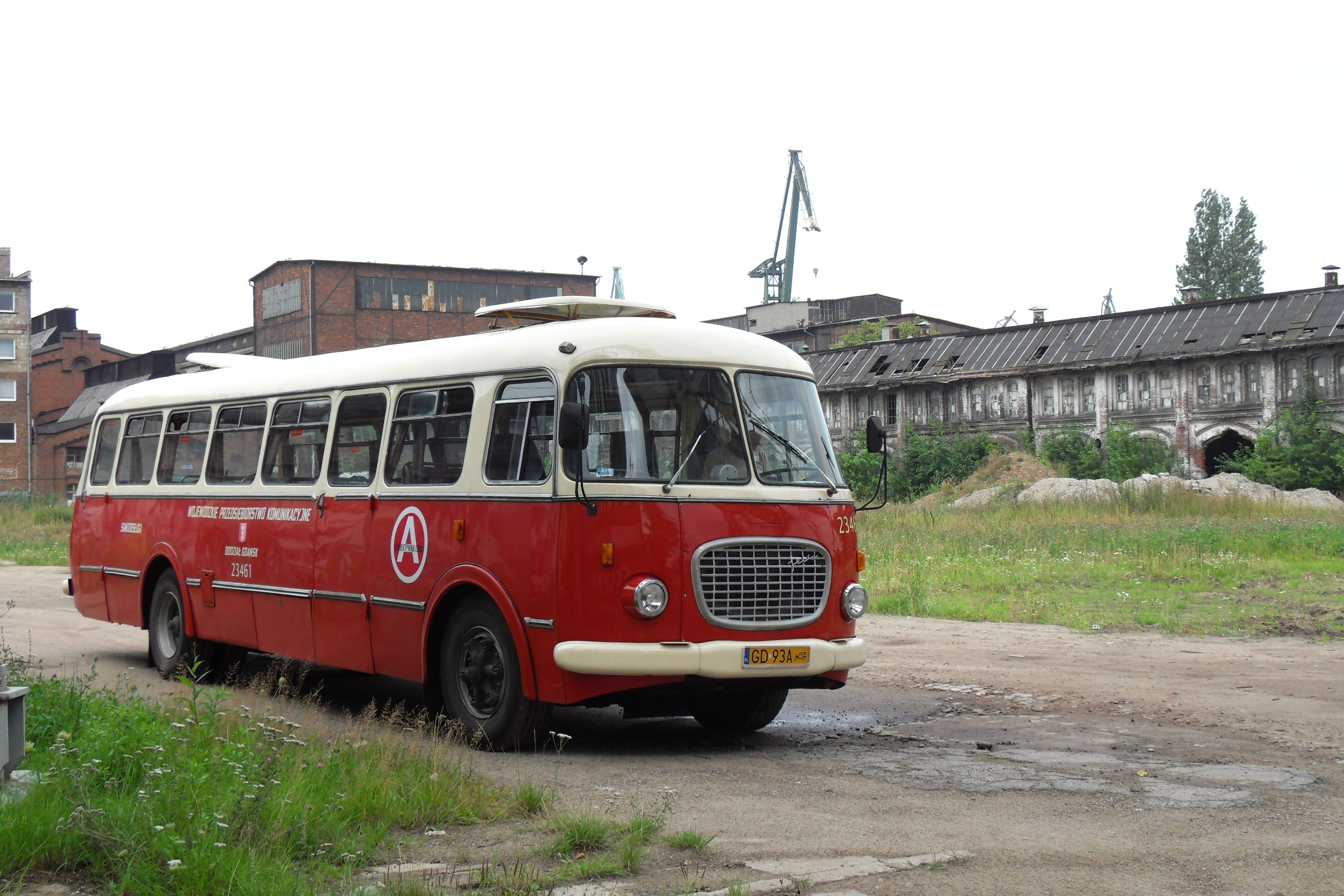 Jelcz 043 bus (#23461) in Gdańsk, Poland. Built 1984, ZKM Gdańsk operator.